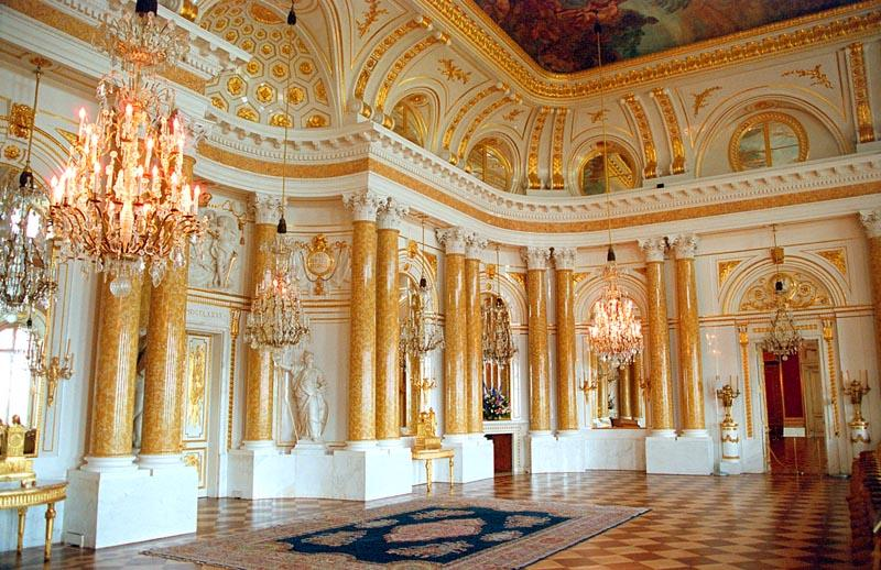 Ballroom at the Royal Castle in Warsaw